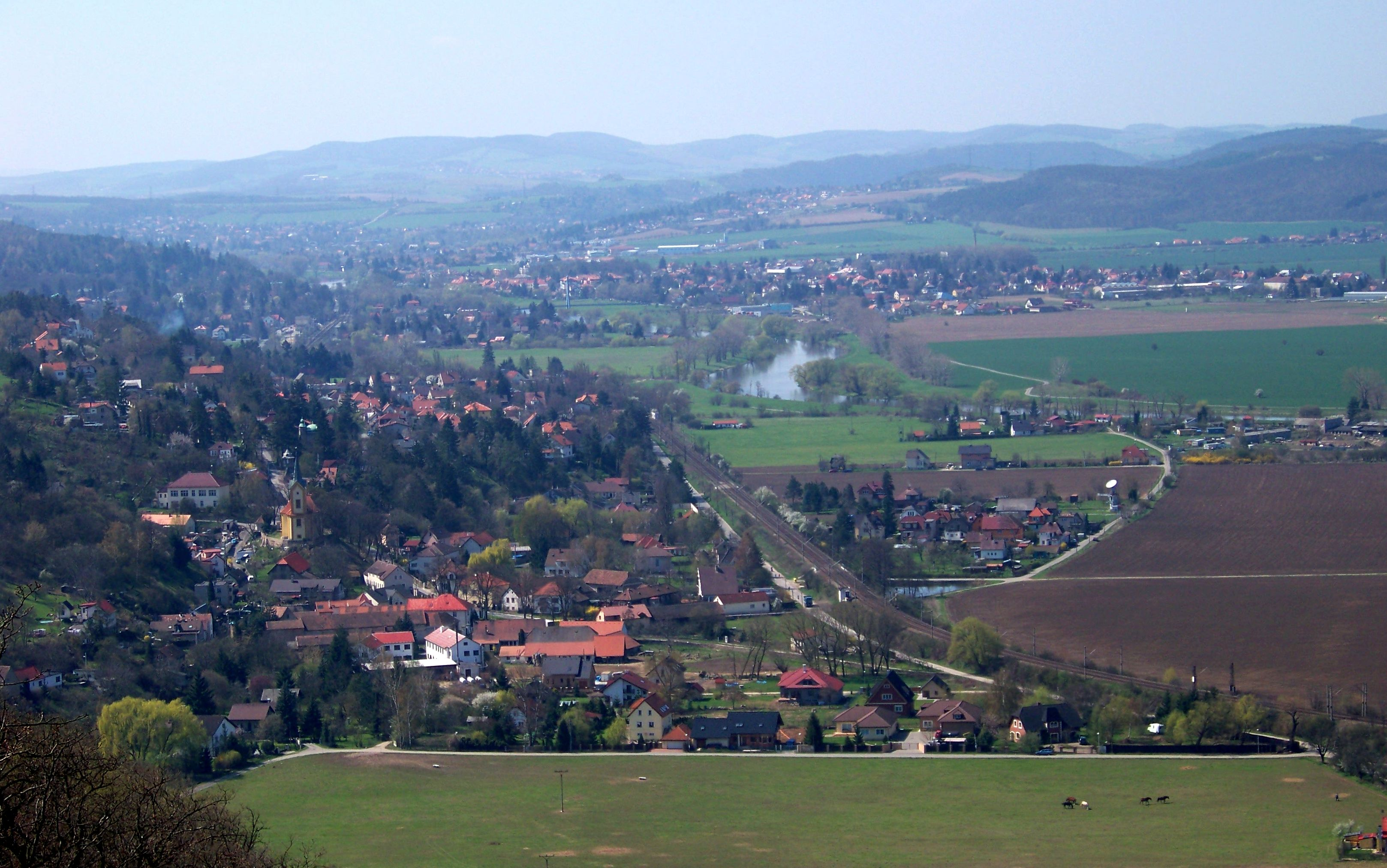 A view of Všenory and Dobřichovice from Hladká skála (Smooth Rock), Jíloviště, Prague-West District, Central Bohemian Region, the Czech Republic.